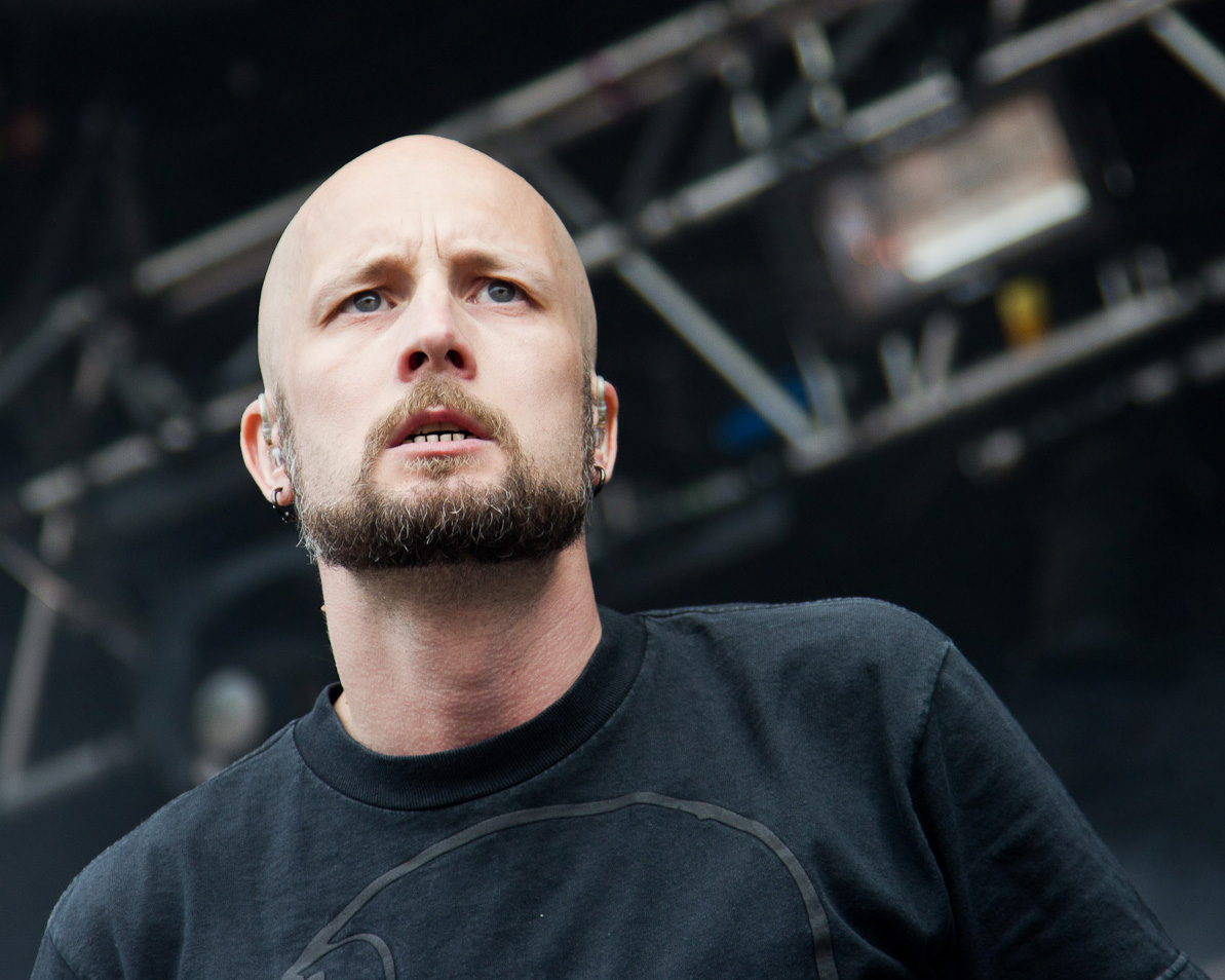 Vocalist Jens Kidman from Swedish band Meshuggah on July 22, 2012